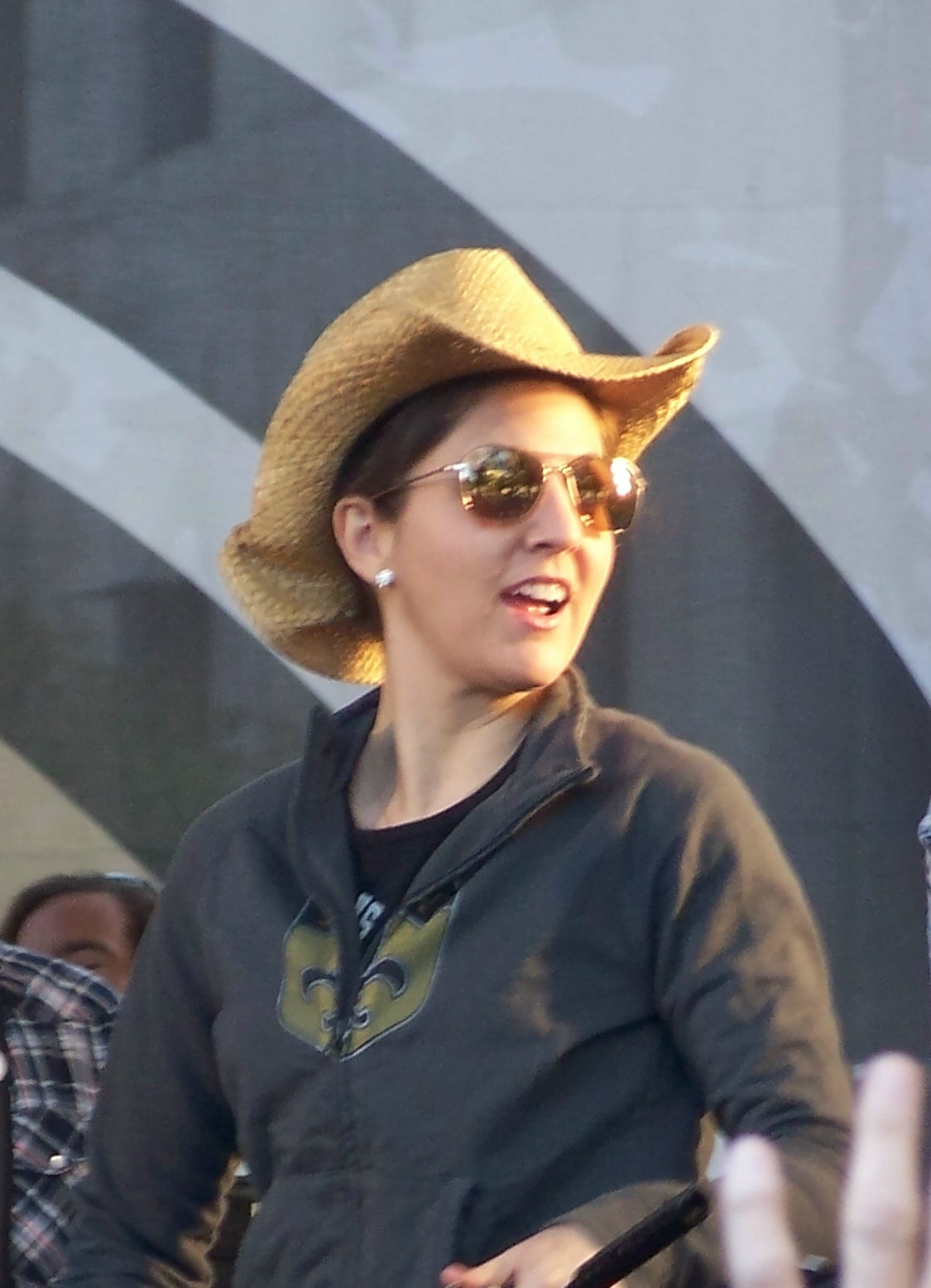 Rita Benson LeBlanc, part owner of the New Orleans Saints.